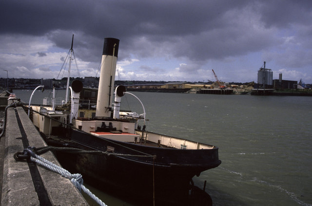 River Medway at Chatham + John H Amos Approximate grid reference as there is quite a long frontage at that point and this is historical. The paddle tug is quite unique and I hope it can be saved.